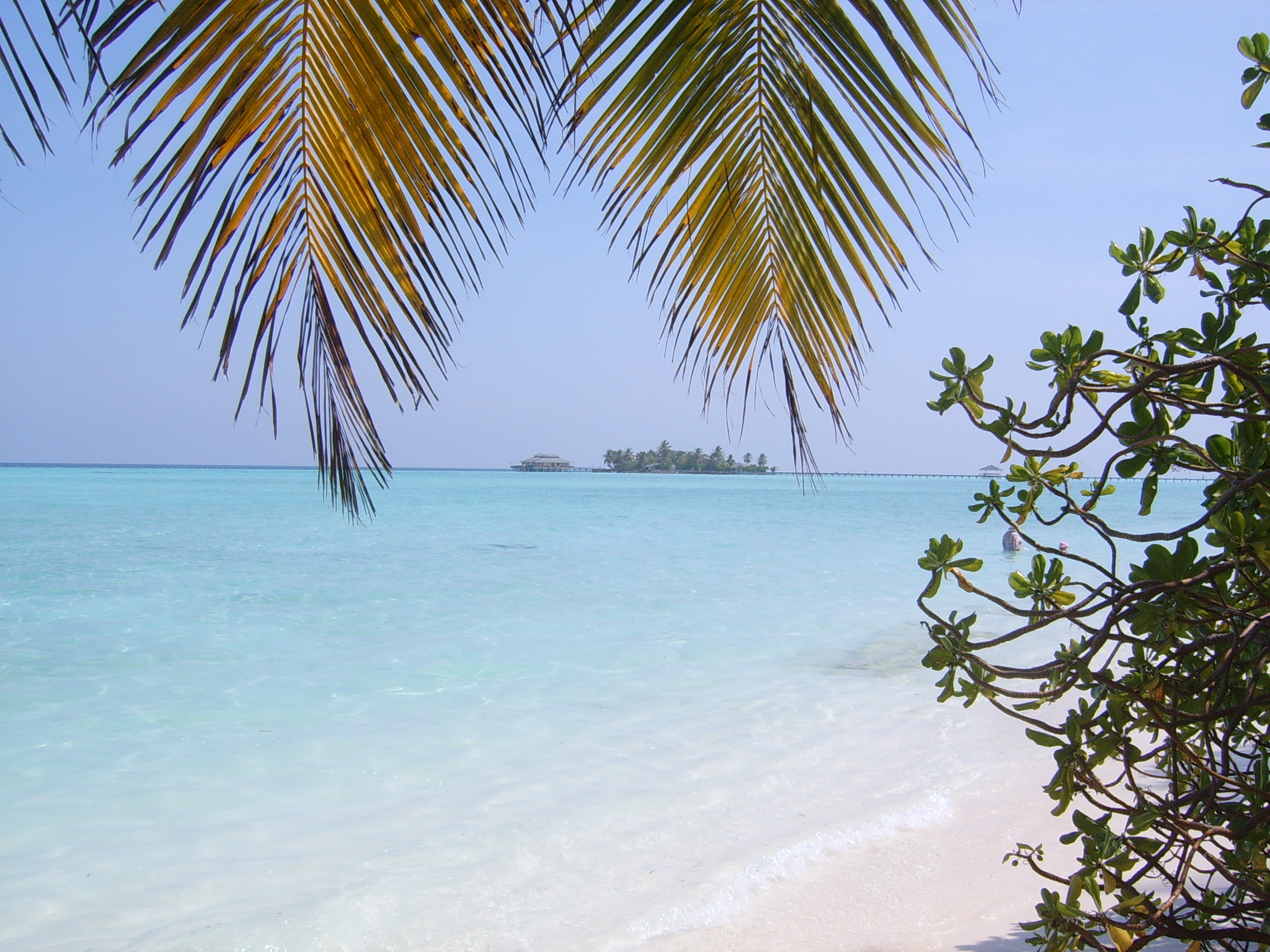 Nalaguraidhoo (Sun Island) Lagoon and northern Beach on western part of the island